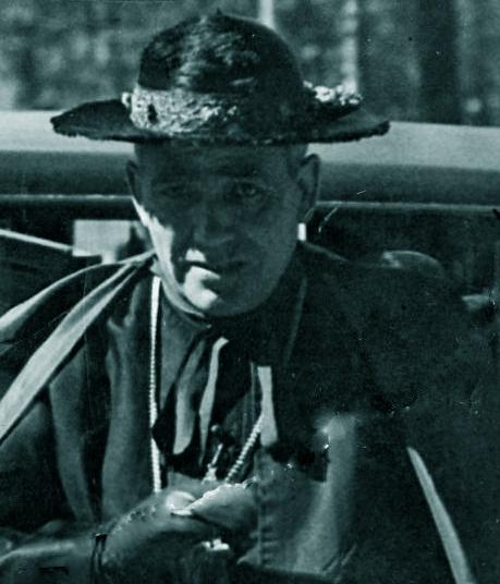 Bishop Segura walking in Seville, year 1950